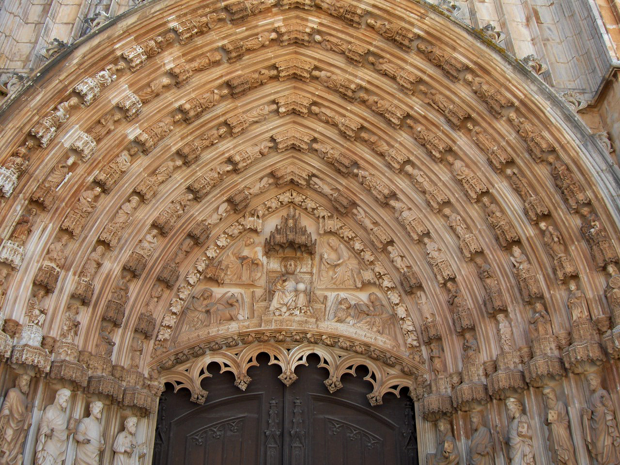 Archivolt and tympanum of the portal of the monastery of Batalha, Portugal